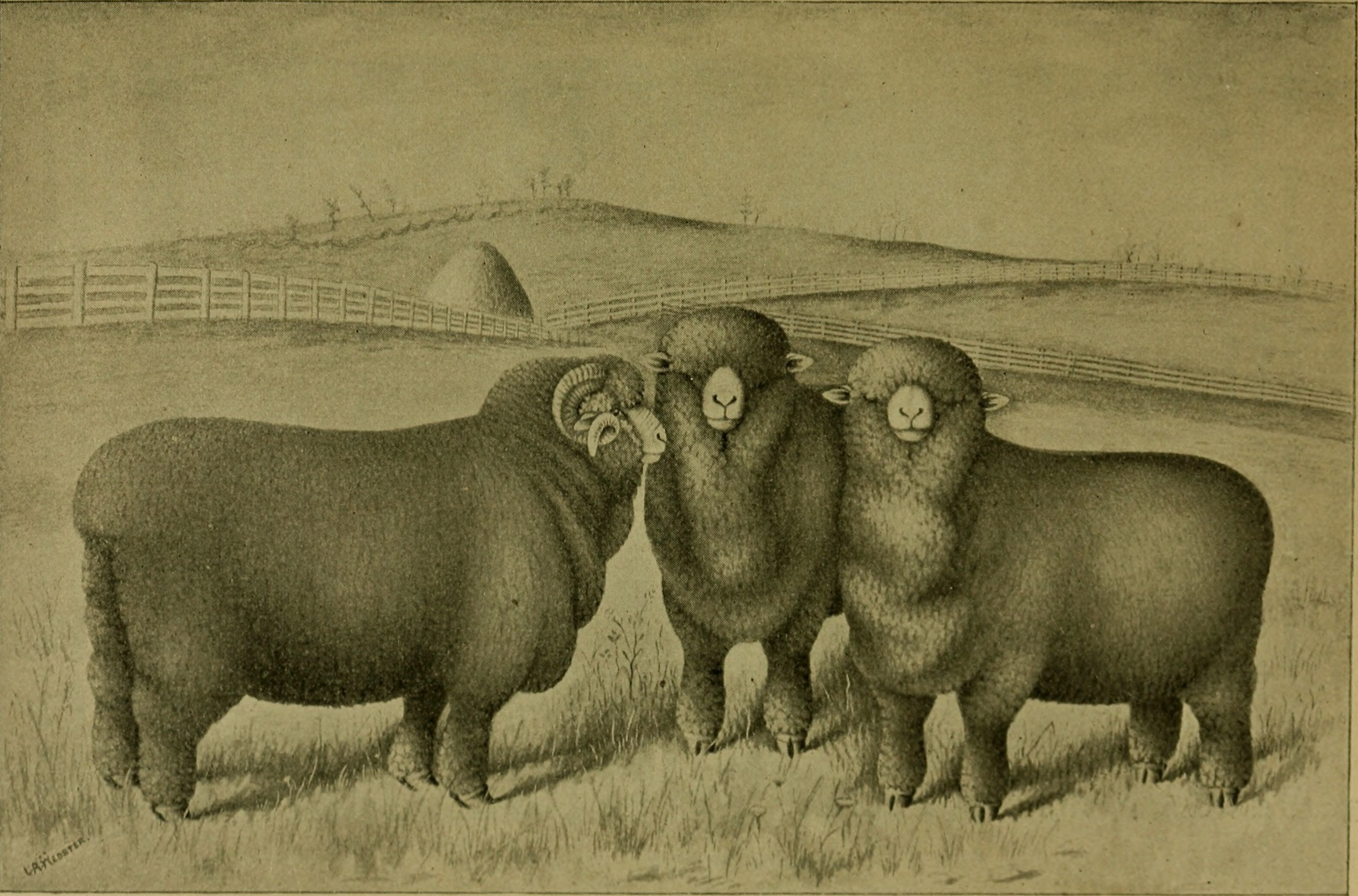 Title: The domestic sheep : its culture and general management Year: 1900 (1900s) Authors: Stewart, Henry Subjects: Sheep Publisher: Chicago : American Sheep Breeder Press Text Appearing Before Image: ' Text Appearing After Image: 0 S Si s o a e3 "- O ^ n y. ^ o s